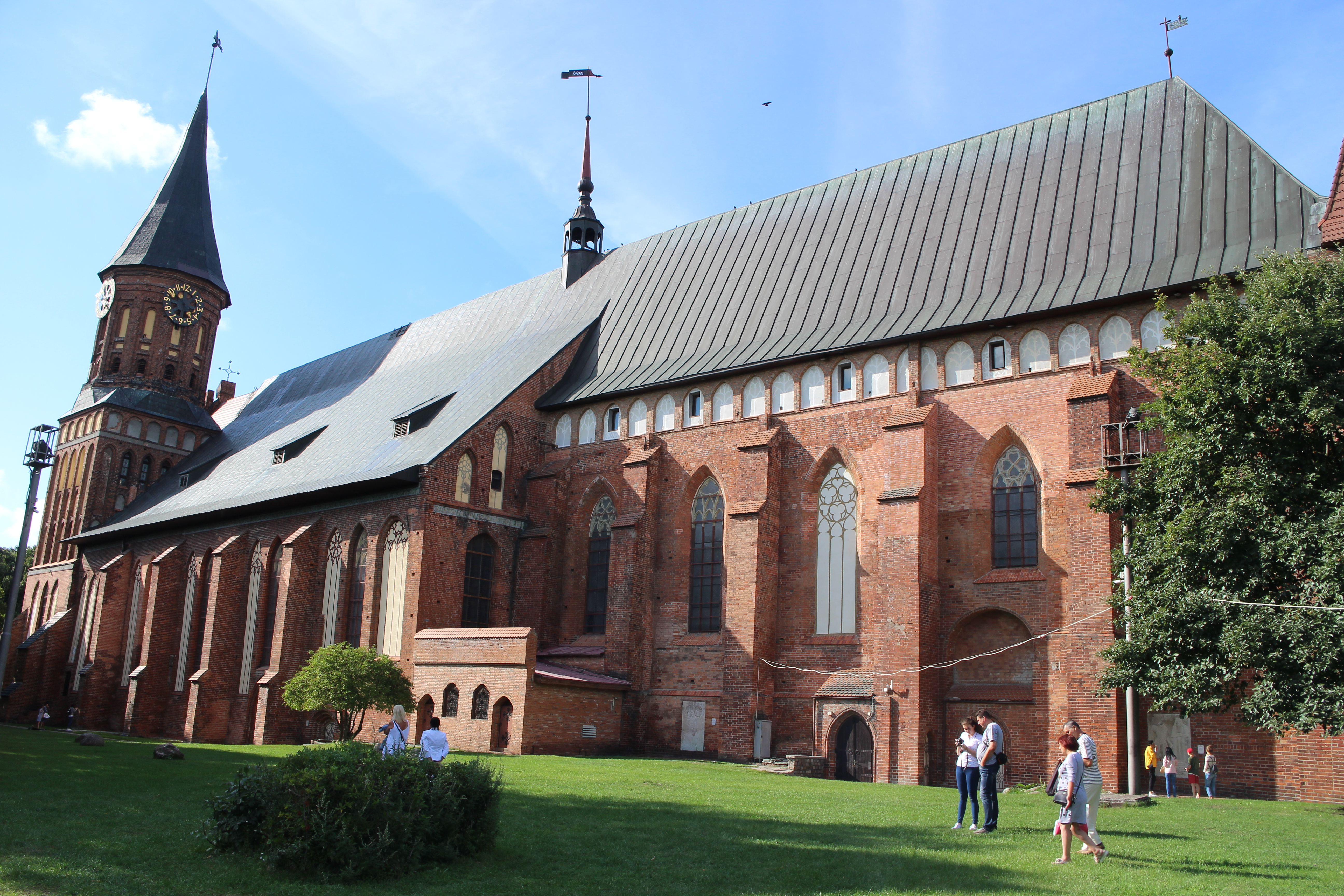 Königsberg Cathedral